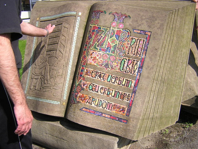 Sunderland University Library